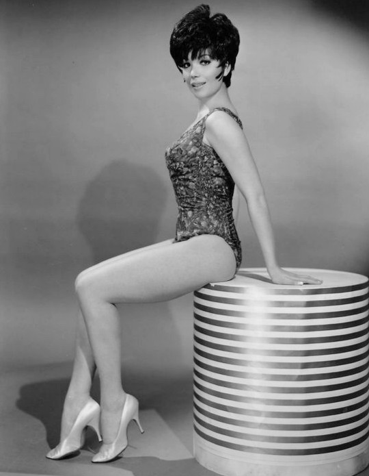 Photo of actress Luba Lisa Gootnick. Lisa often appeared on The Tonight Show during the time Johnny Carson hosted it.